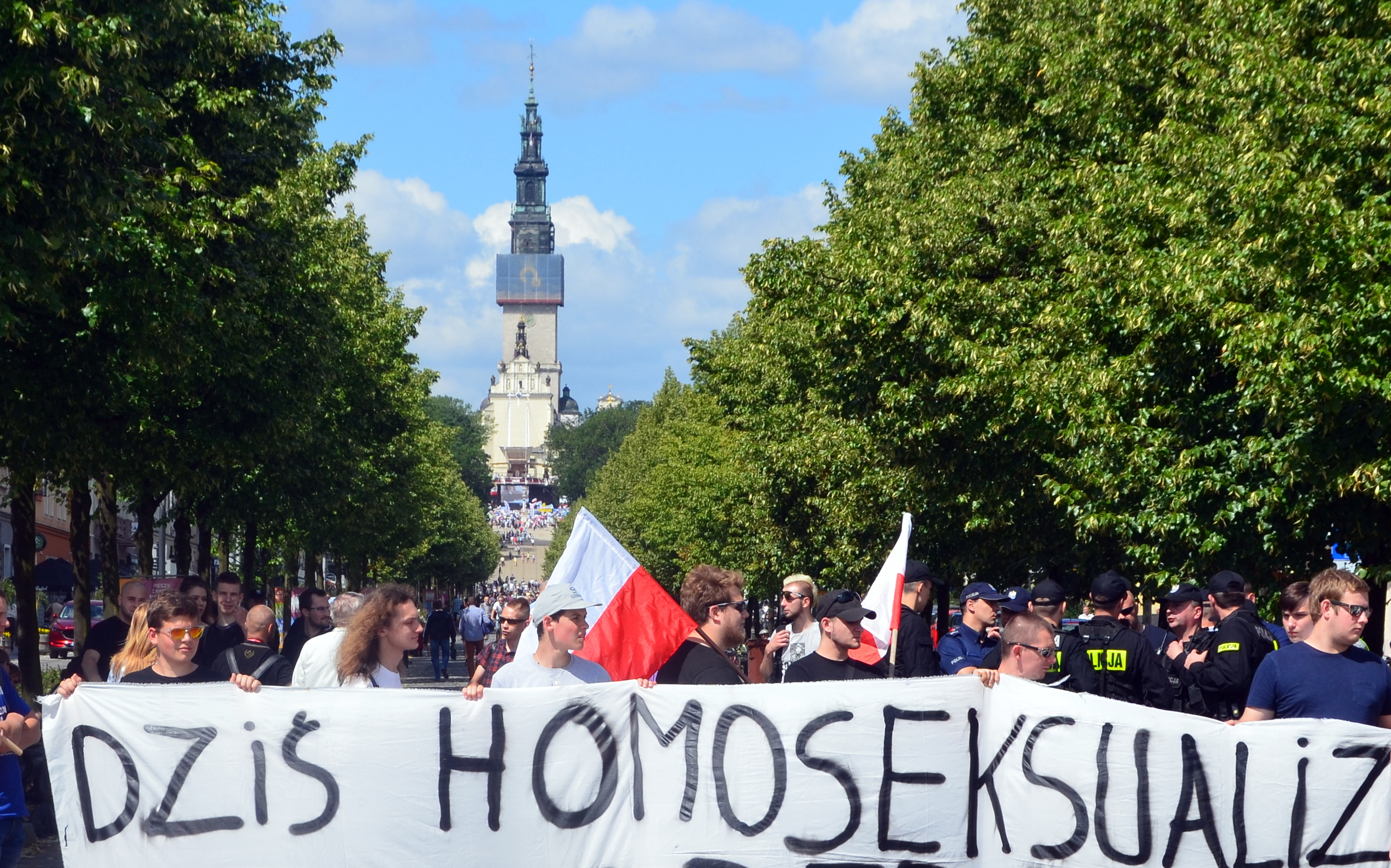 27th pilgrimage of Radio Maryja Family at Jasna Góra monastery